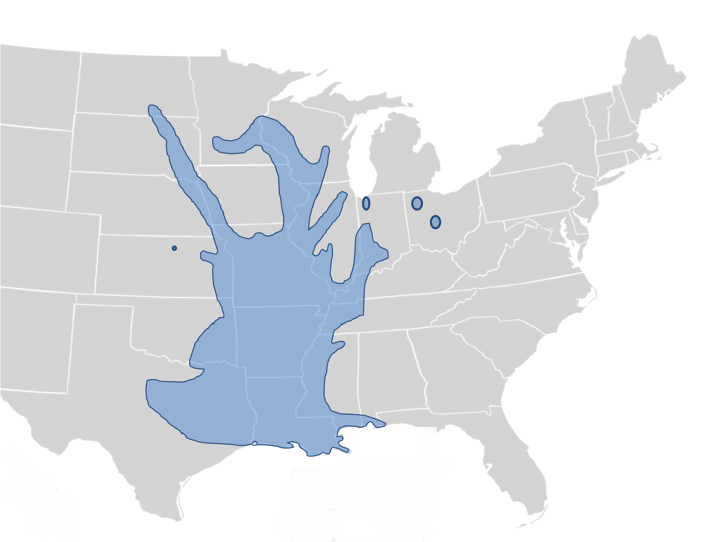 Range map of the False Map Turtle (Graptemys pseudogeographica), based on C.H. Ernst and J.E. Lovich. (2009) "Turtles of the United States and Canada. 2nd Ed." Baltimore: Johns Hopkins University Press, pg 327